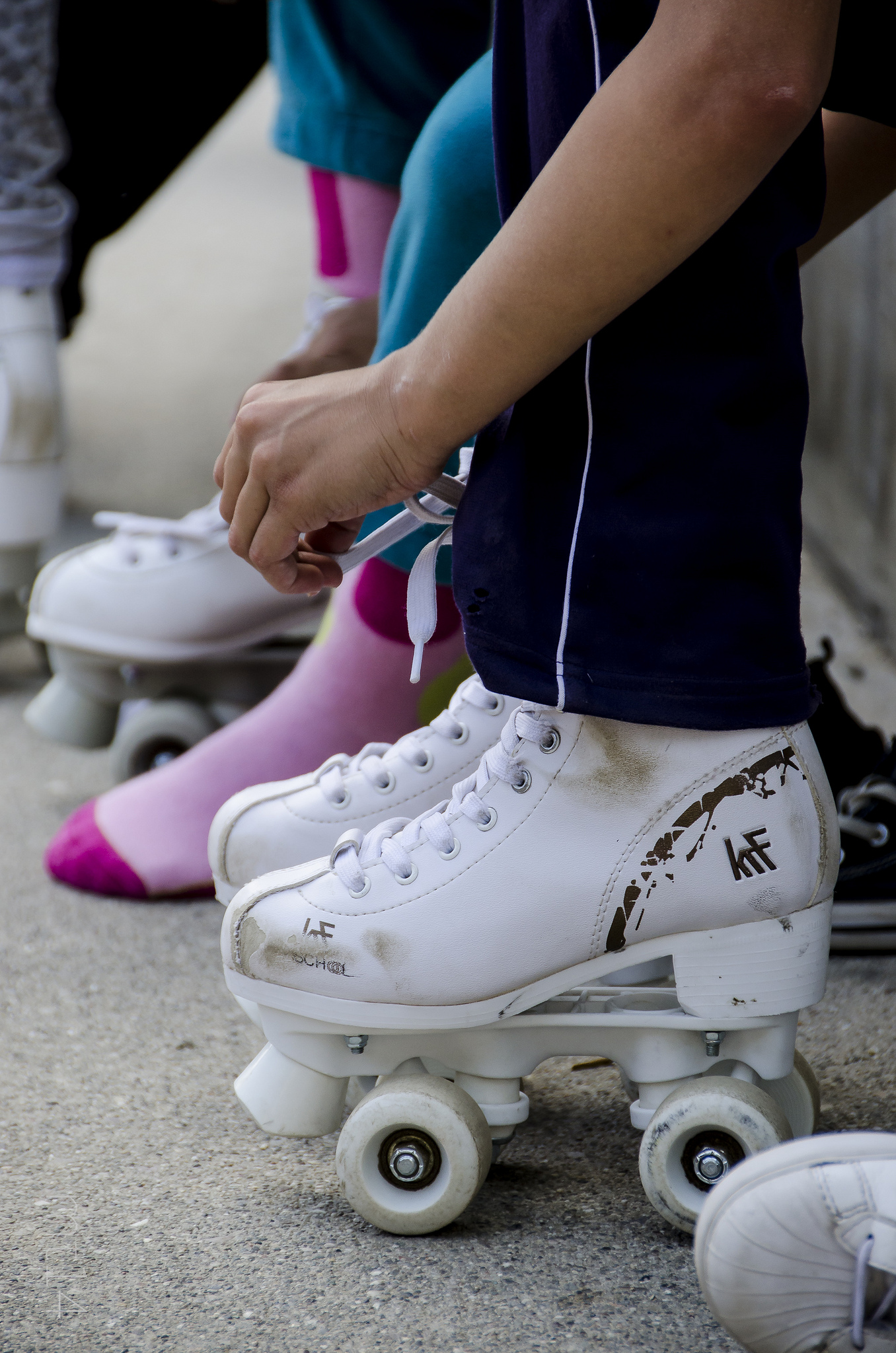 Roller Skates